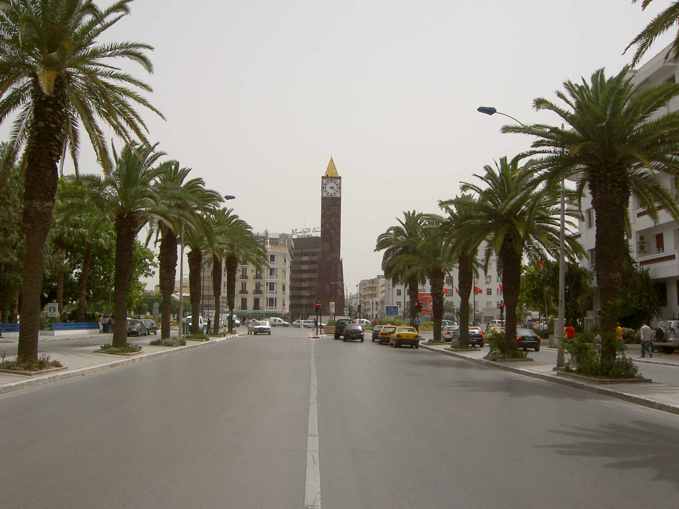 Avenue Mohammed V, Tunis, Tunisia